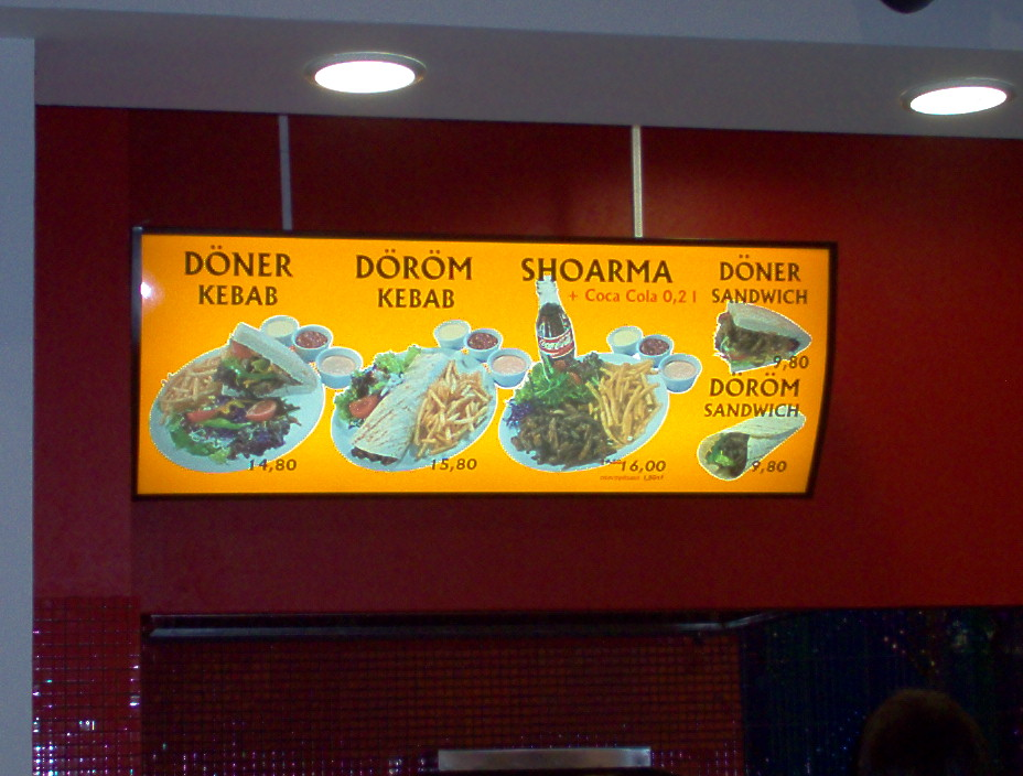 it is a sign on a restaurant in Łódź, Poland. it shows Turkish meals with defects of their real Turkish names.